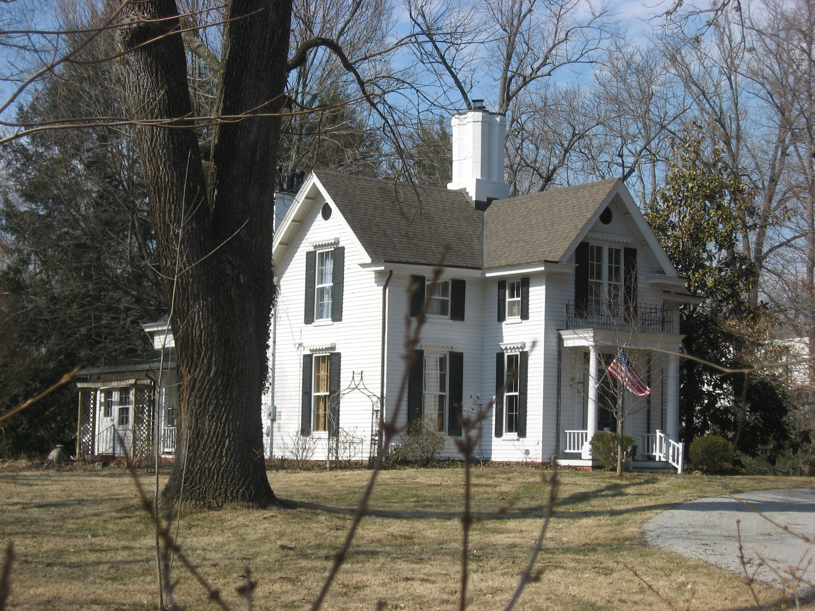 Front and southern side of the Nash-McDonald House, located at 1306 Bellewood Road in Anchorage, Kentucky, United States. Built in 1869, it is listed on the National Register of Historic Places.